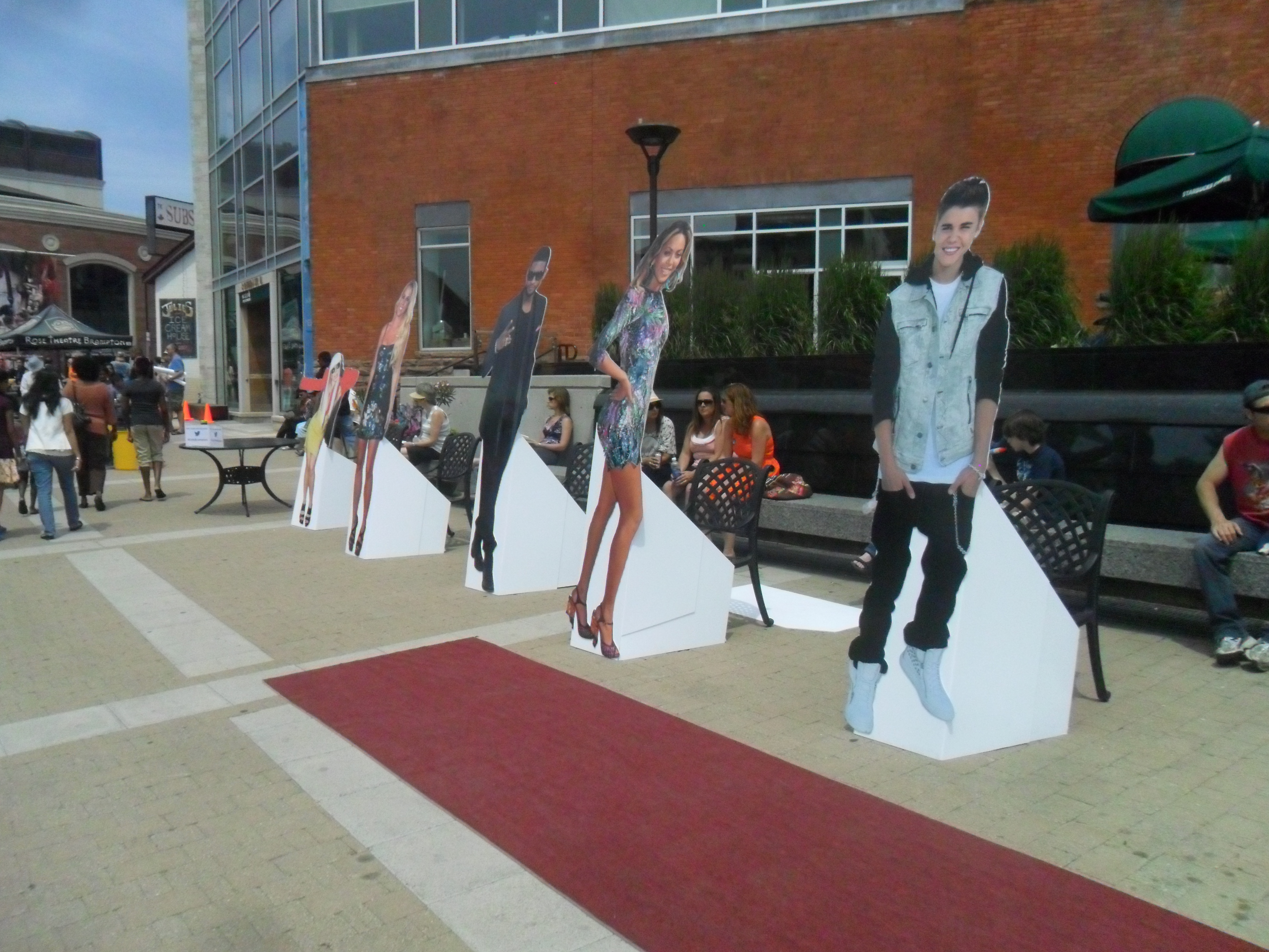 Red carpet photo area, Celebrampton 2013 at Garden Square, Main St North and Queen St East, Brampton.